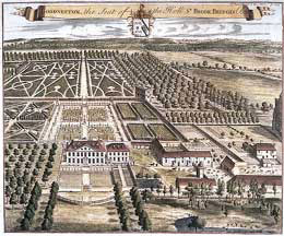 Plan of Goodnestone Park, Kent immedately after the house was built in 1704